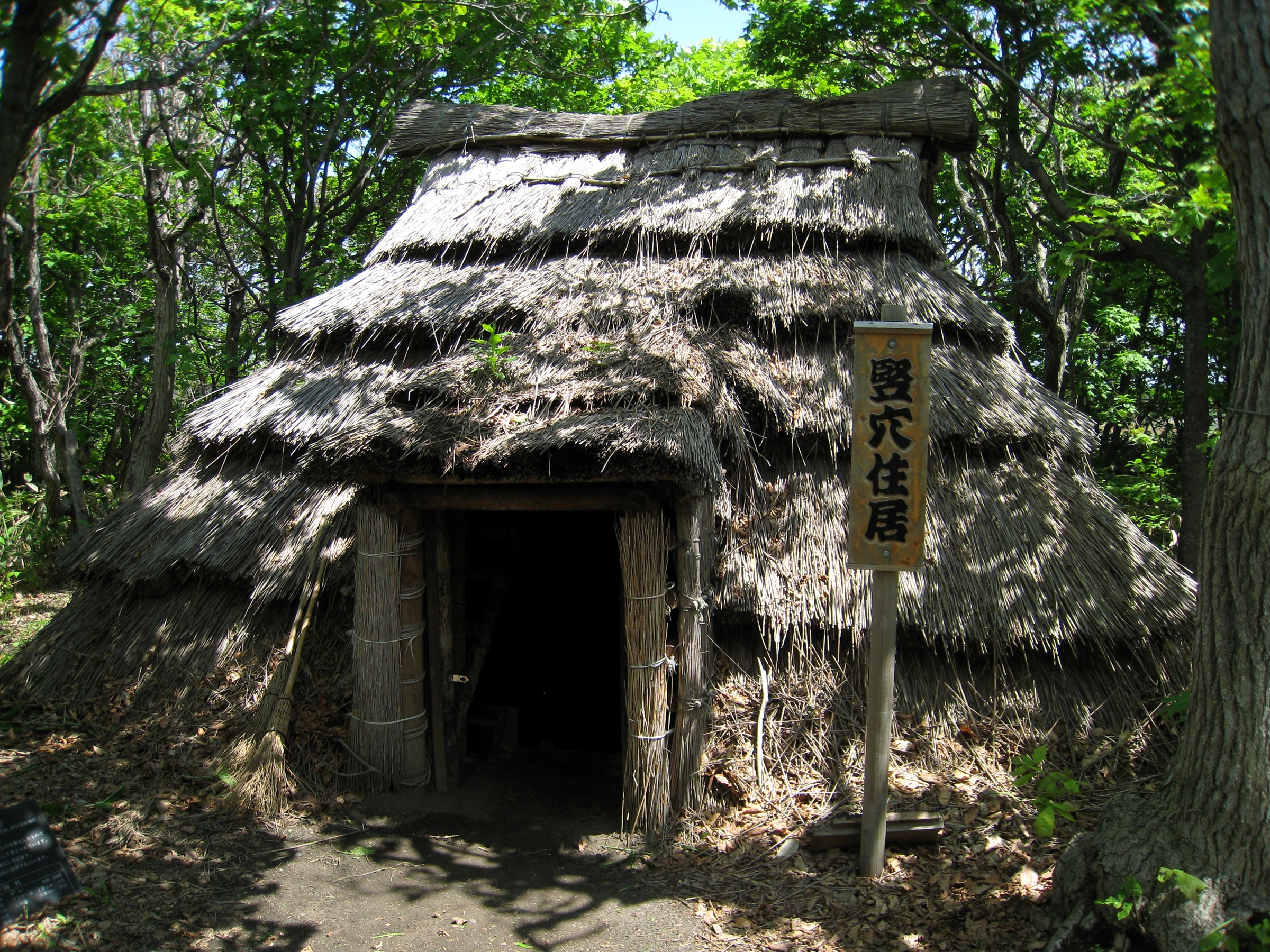 Kawaguchi Ruins of Teshio Town, Hokkaido, This Photo Taken in June 17, 2008